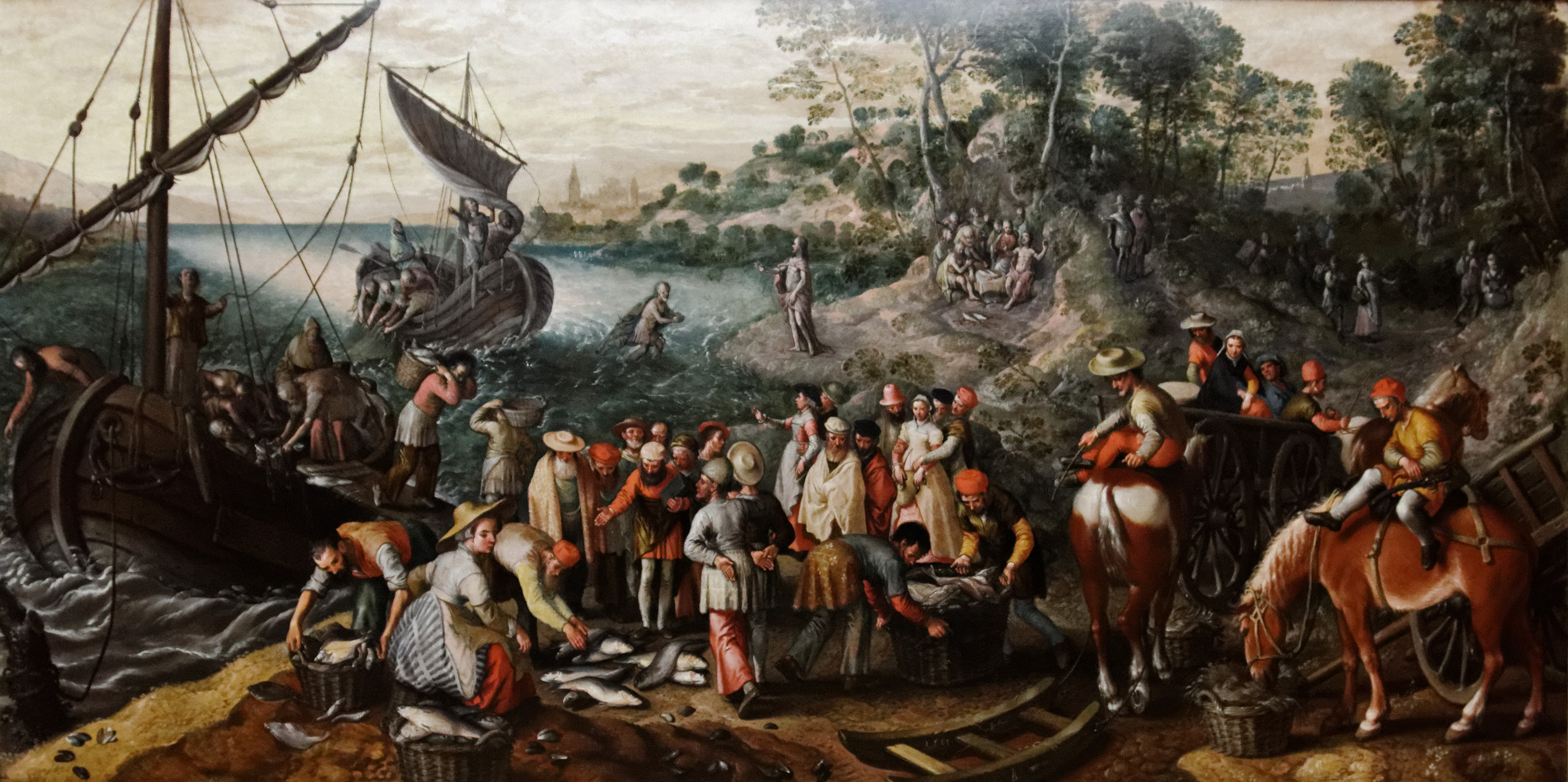 The Miraculous Draught of Fishes